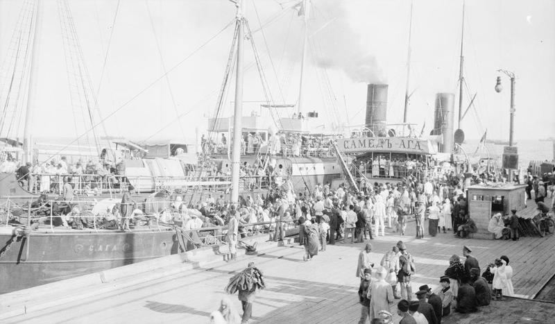 Refugees leaving Baku for Persia.